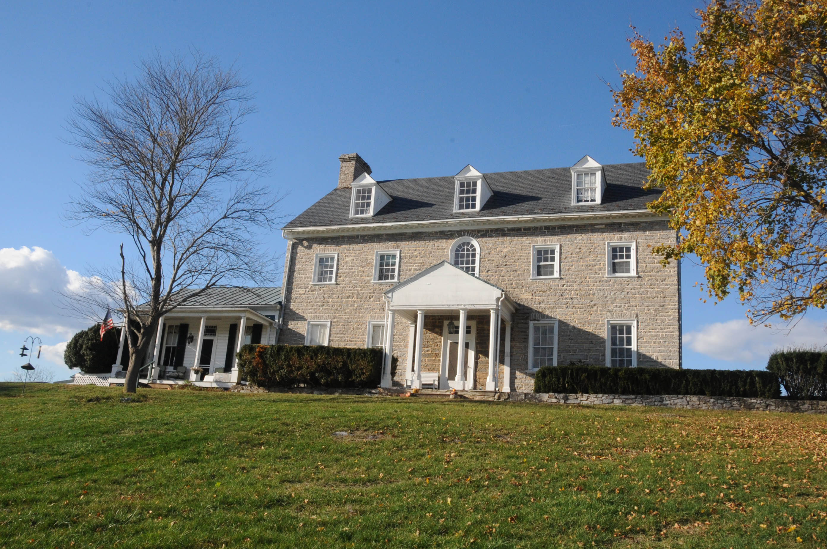 BUILT BY BRIG. GENERAL DANIEL MORGAN, VICTOR AT THE BATTLE OF COWPENS IN 1781, AND NAMED AFTER THE AMERICAN VICTORY AT SARATOGA.